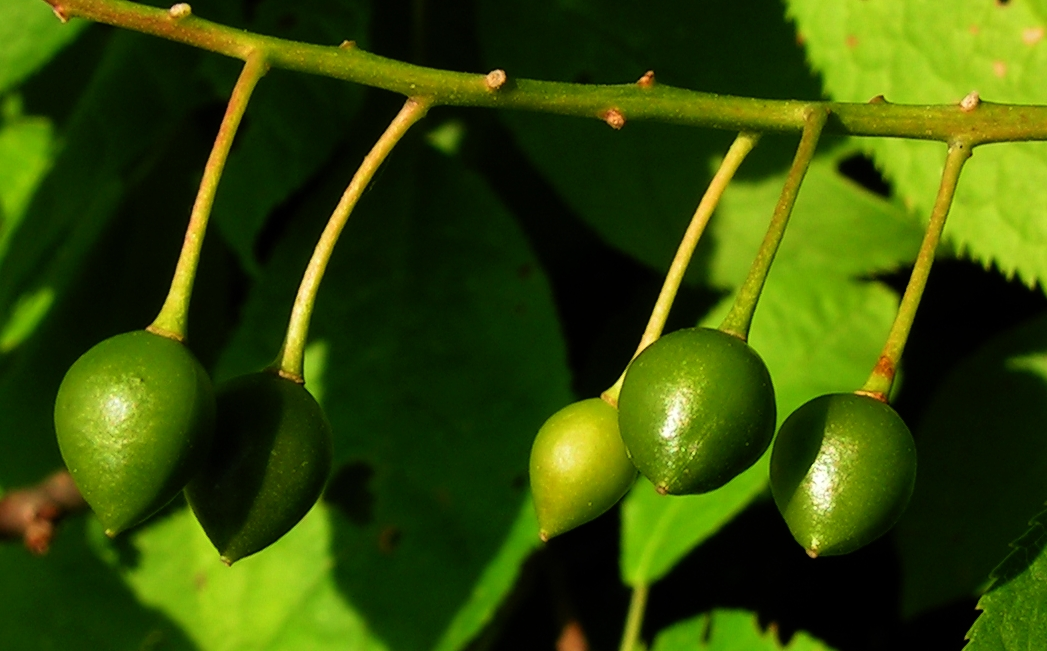 The fruits of Prunus padus [syn. Padus avium]. Moscow region, Russia.